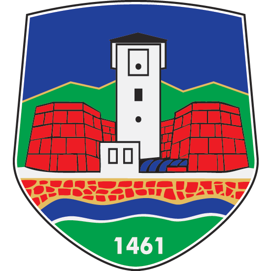 Here is the coat of arms of the town of Novi Pazar.